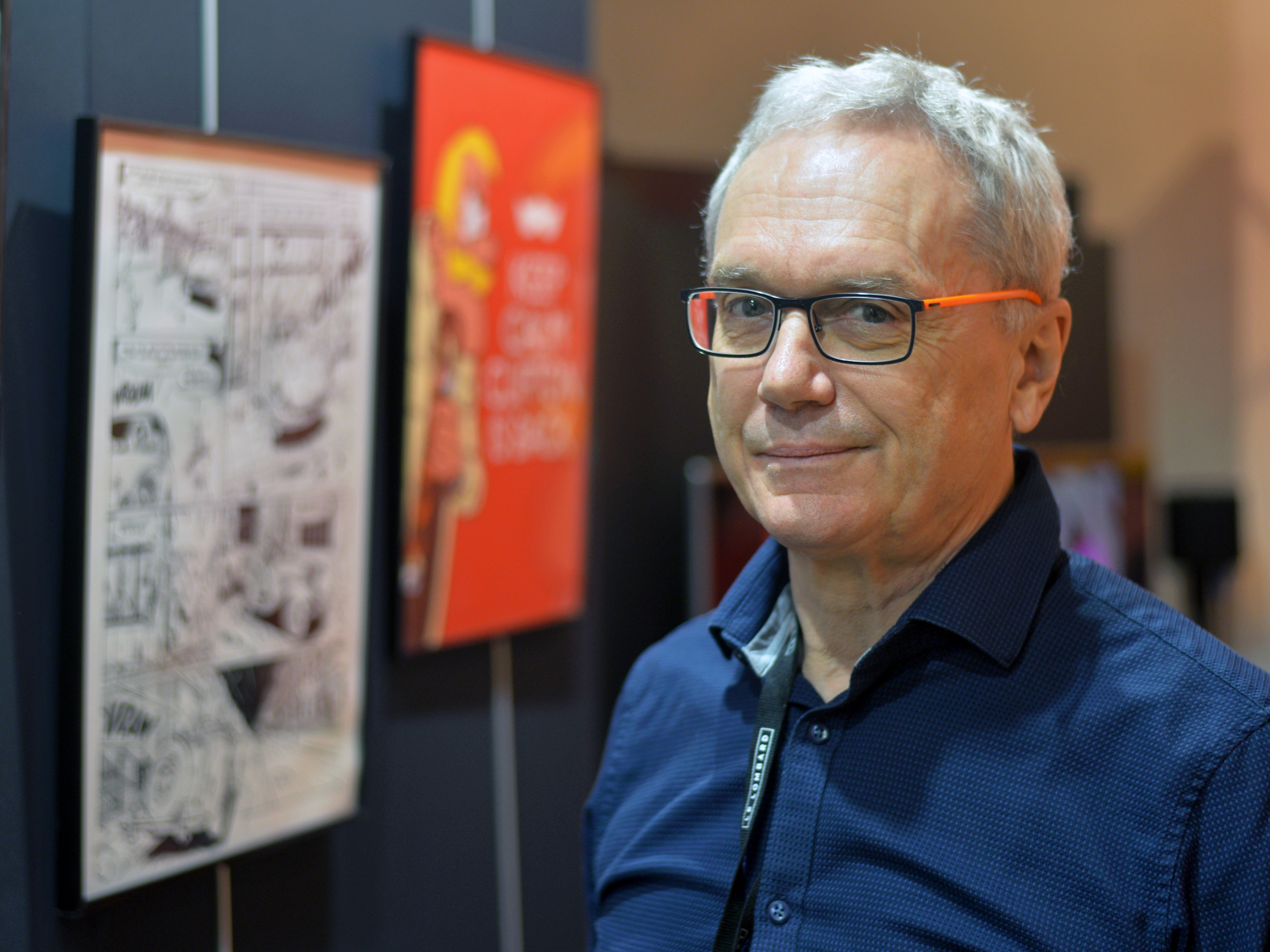 Turk, alias Philippe Liégeois, Angoulême International Comics Festival in 2016.